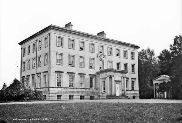 PalaceArchbishopArmaghNLI